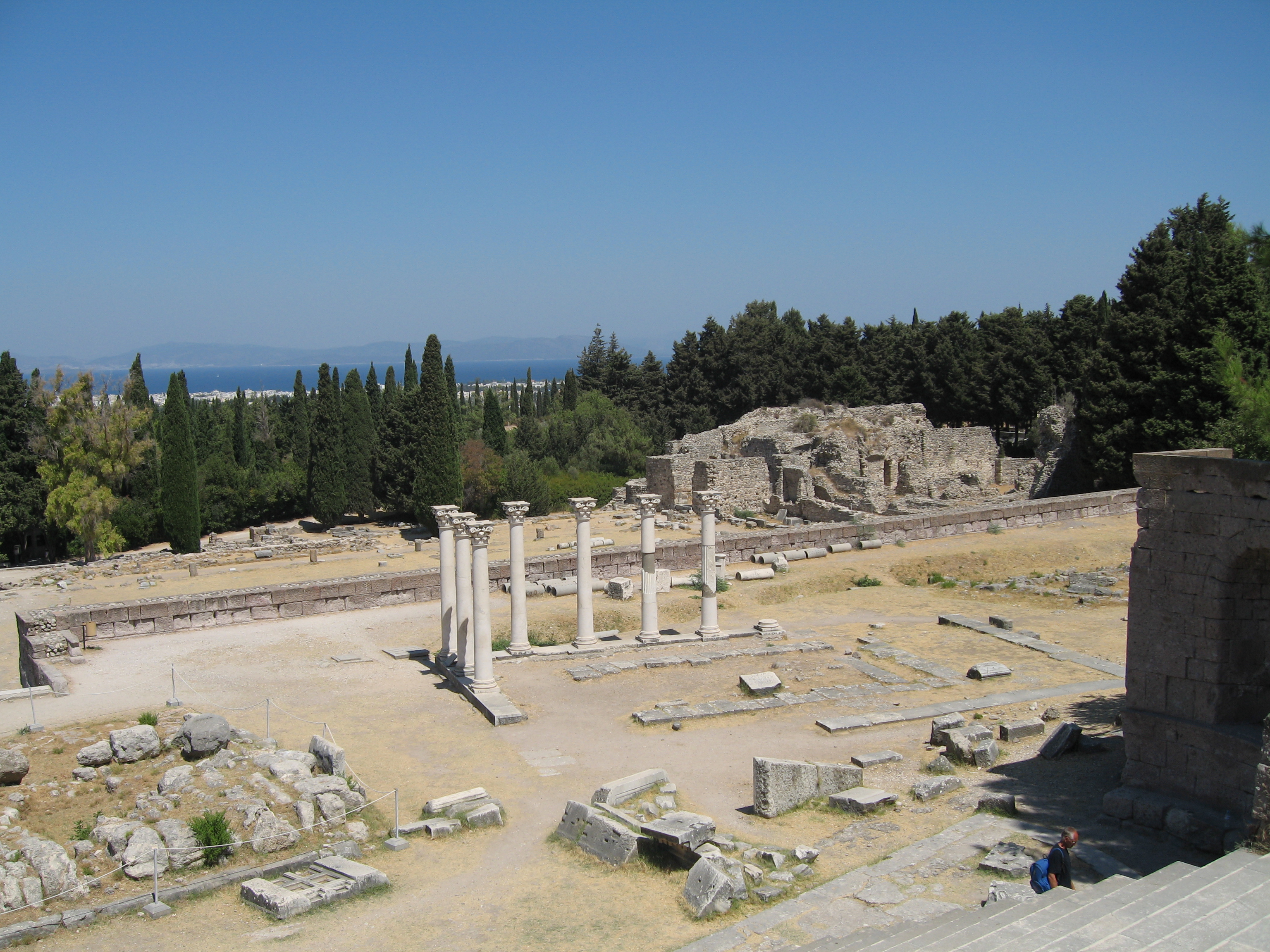 The ruins of the temple of Hippokrates. Or Asklepieion of Kos, Greece